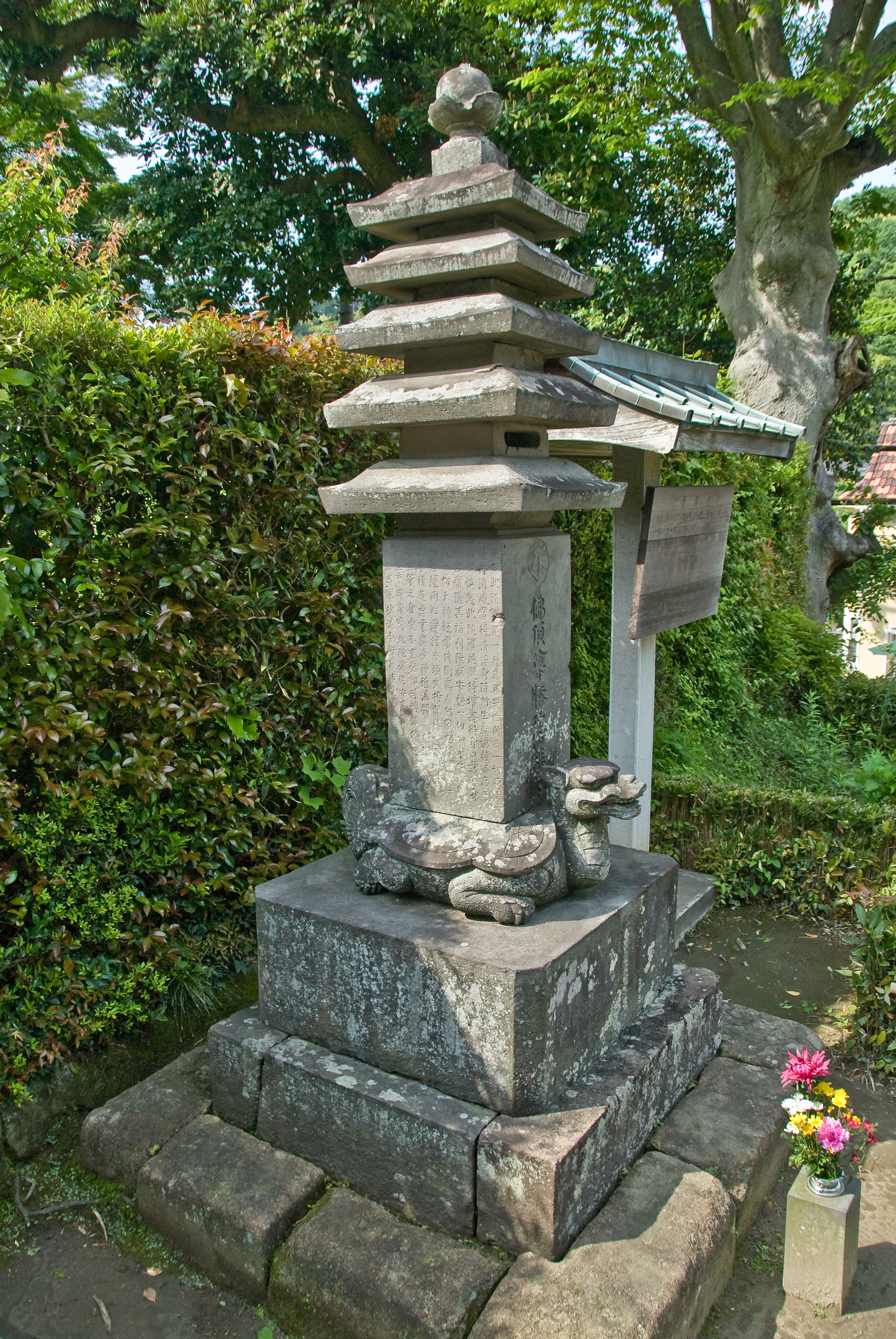 Chōjū-ji is a small temple in Kita-Kamakura usually closed to the public 長寿寺、北鎌倉, Chojuji